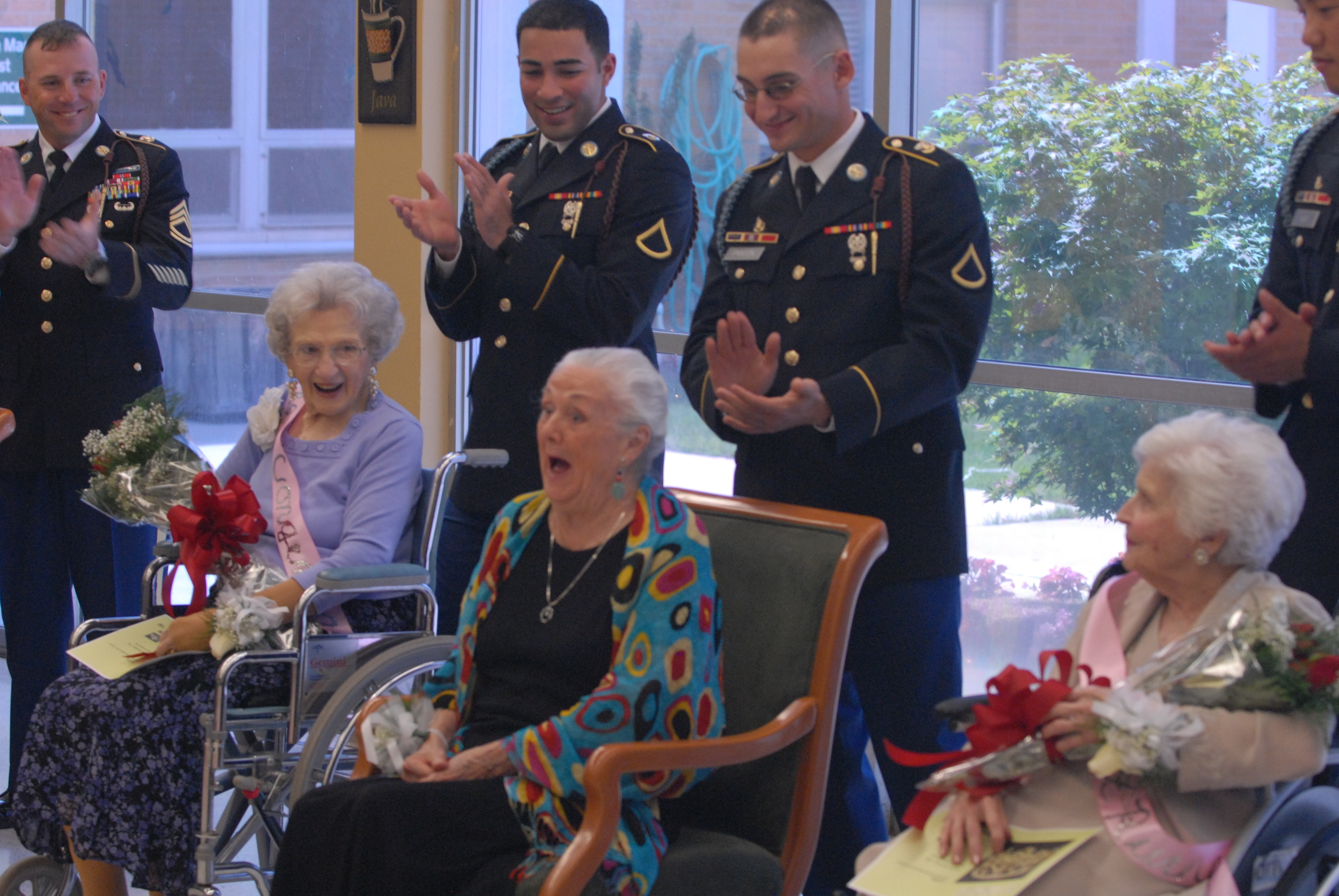 Soldiers from the 3rd Heavy Brigade Combat Team, 3rd Infantry Division, give a round of applause to Dorothy Grogan as she is named the first Ms. Magnolia Manor, Friday, at the Magnolia Manor assisted living community as part of Senior Citizens’ Week. Sledgehammer soldiers escorted the contestants down the runway and during the evening attire portion of the pageant. 3rd Brigade Combat Team, 3rd Infantry Division Public Affairs Photo by Sgt. Christopher Johnston Date Taken:05.18.2012 Location:COLUMBUS, GA, US Read more